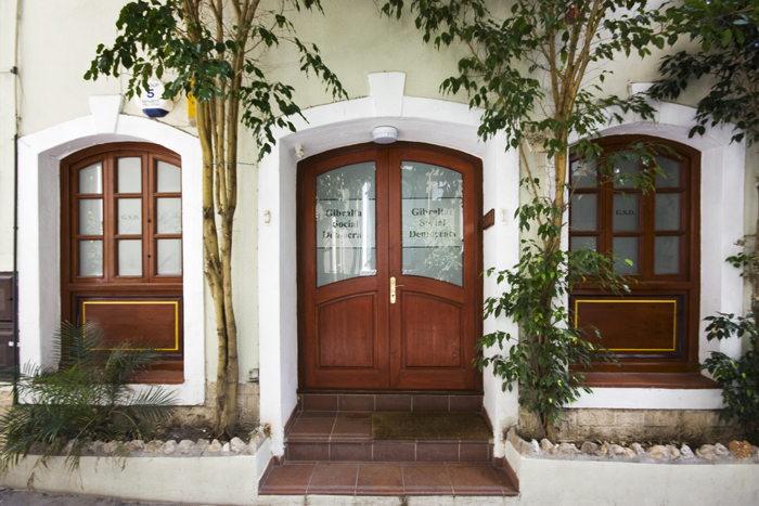 Doors with doorsteps. Headquartes of the Gibraltar Social Democrats in College Lane, Gibraltar.